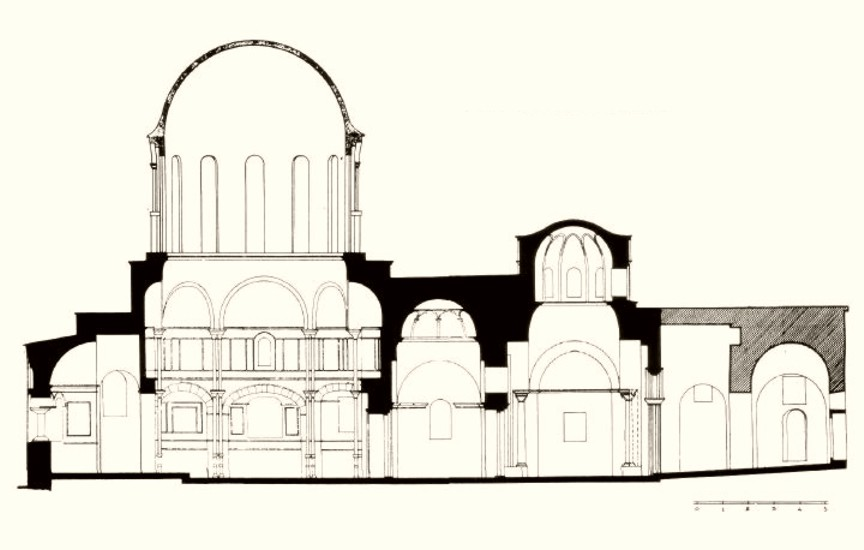 Nea Moni (plan of kafolikon)